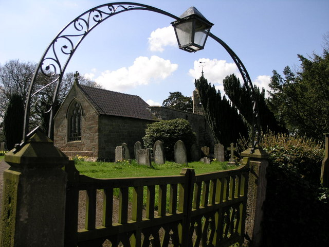 St James' parish church, Edlaston, Derbyshire, seen from the northeast